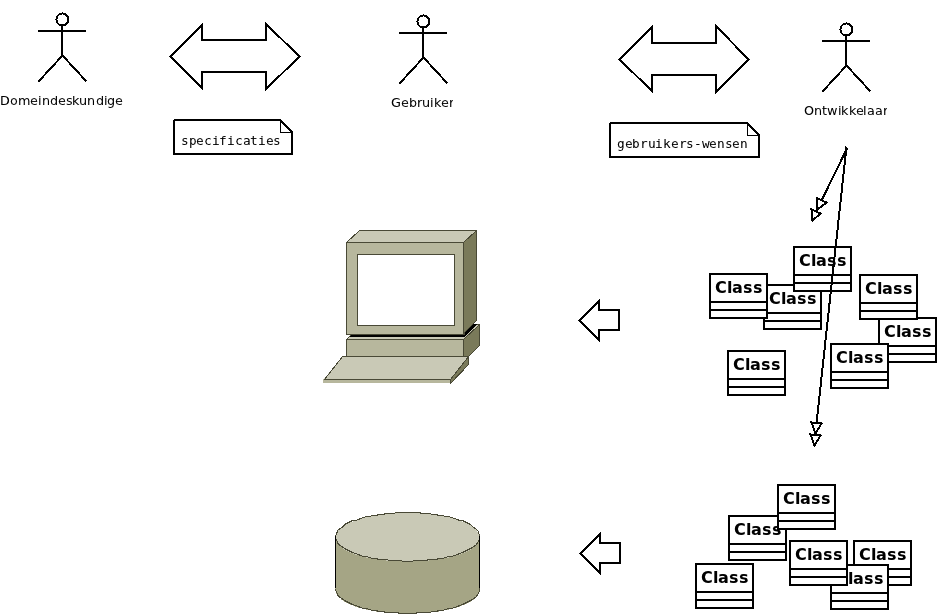 A diagram displaying the interaction during two level modelling of software